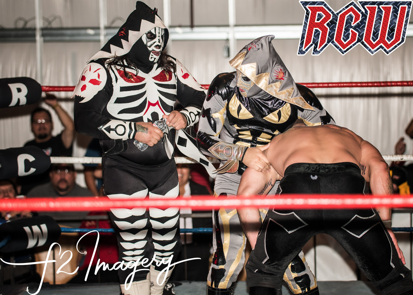 los luchadores Las Parkas